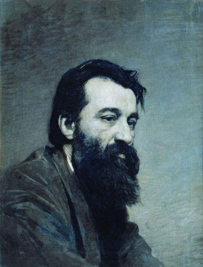 Nikolaj Alexandrowitsch Jaroschenko (1846-1898) Portrait of Sergey Nikolaevich Amosov